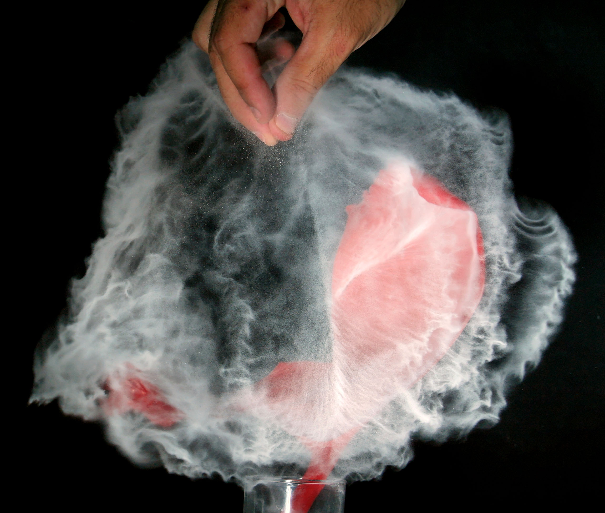 Destroyed balloon filled with corn starch.